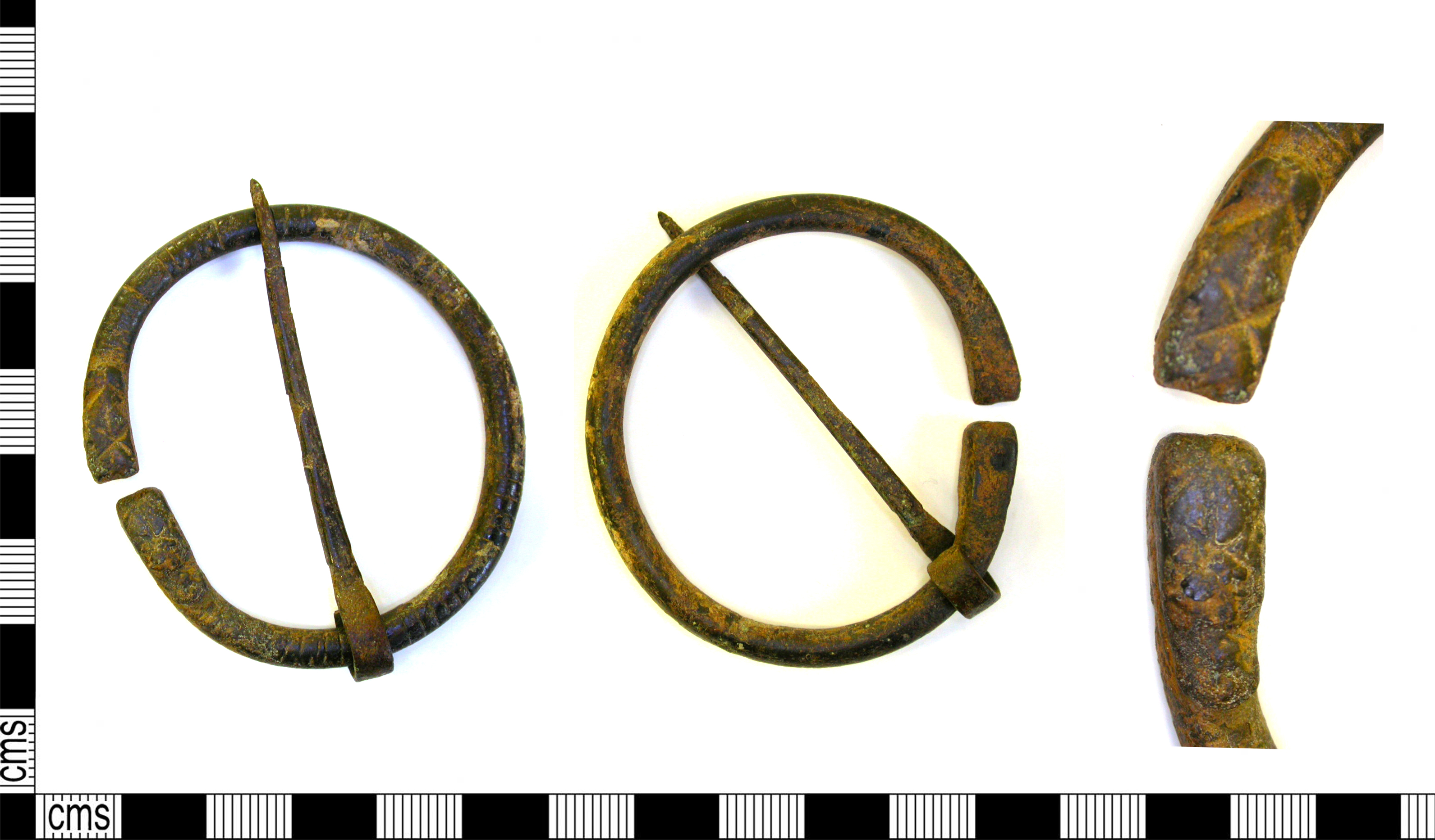 Complete copper alloy penannular brooch of Roman or post-Roman date. The outer face of the hoop is decorated with parallel grooving. The terminals appear cast, but with residual fold line along each side. The terminals are proto-zoomorphic in form with crossed diagonal grooves at the outer ends for 'ears', a transverse groove along the 'head', and diagonal grooves to create a 'snout'. The pin is the standard wrap-around type with no grooving. The dividing line between this type and the more zoomorphic Type D brooches can be quite fine, but this example clearly has several zoomorphic features and so clearly belongs to ther former group. Because of this the date of their development from the earlier Type D can be hard to ascertain, but seems likely to have occured in the 3rd century AD. This type continues to be used well into the early medieval period, occasionally appearing in Anglo-Saxon graves.